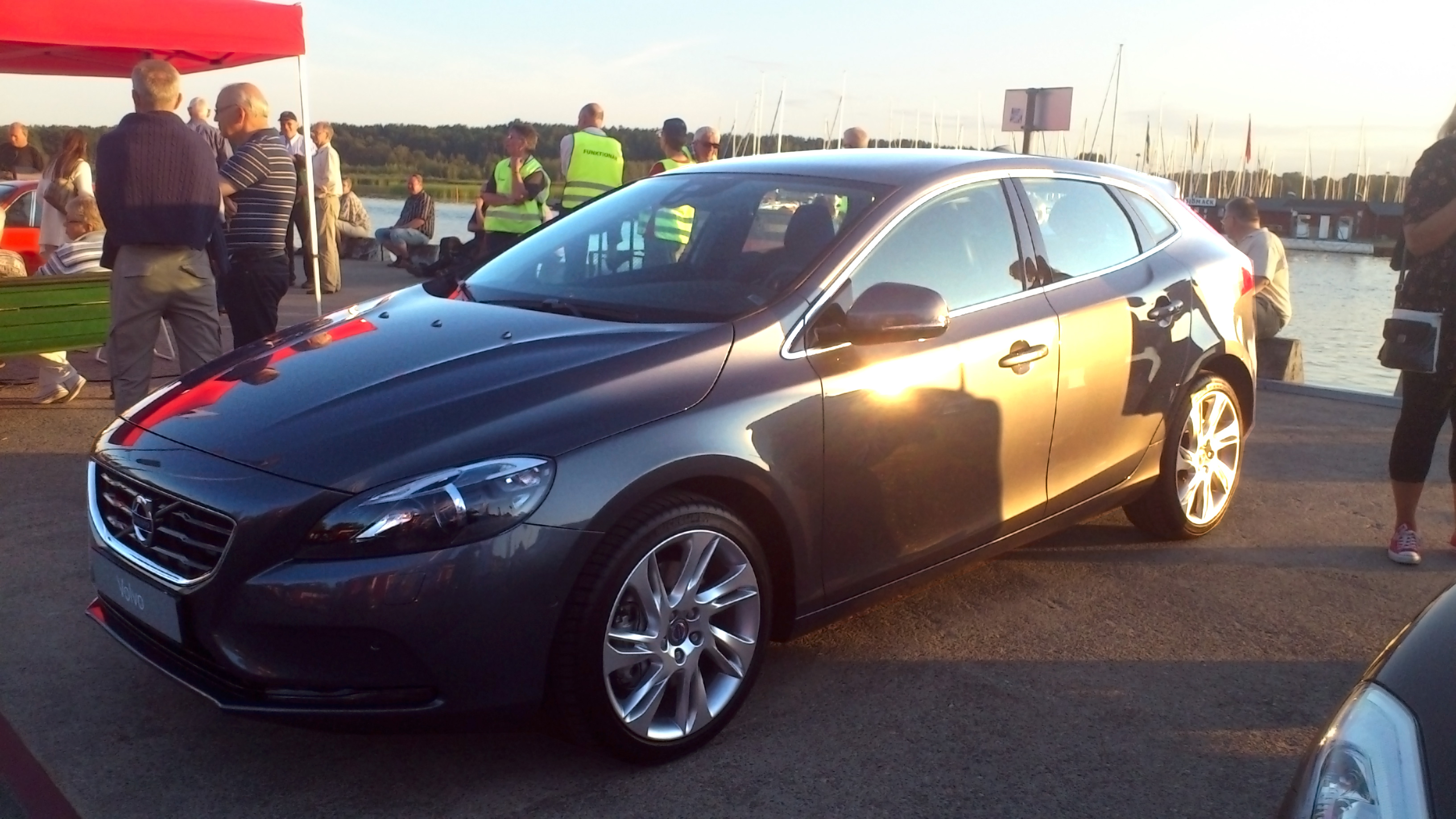 The All New Volvo V40 pre-series demonstrator car with Swedish specs.